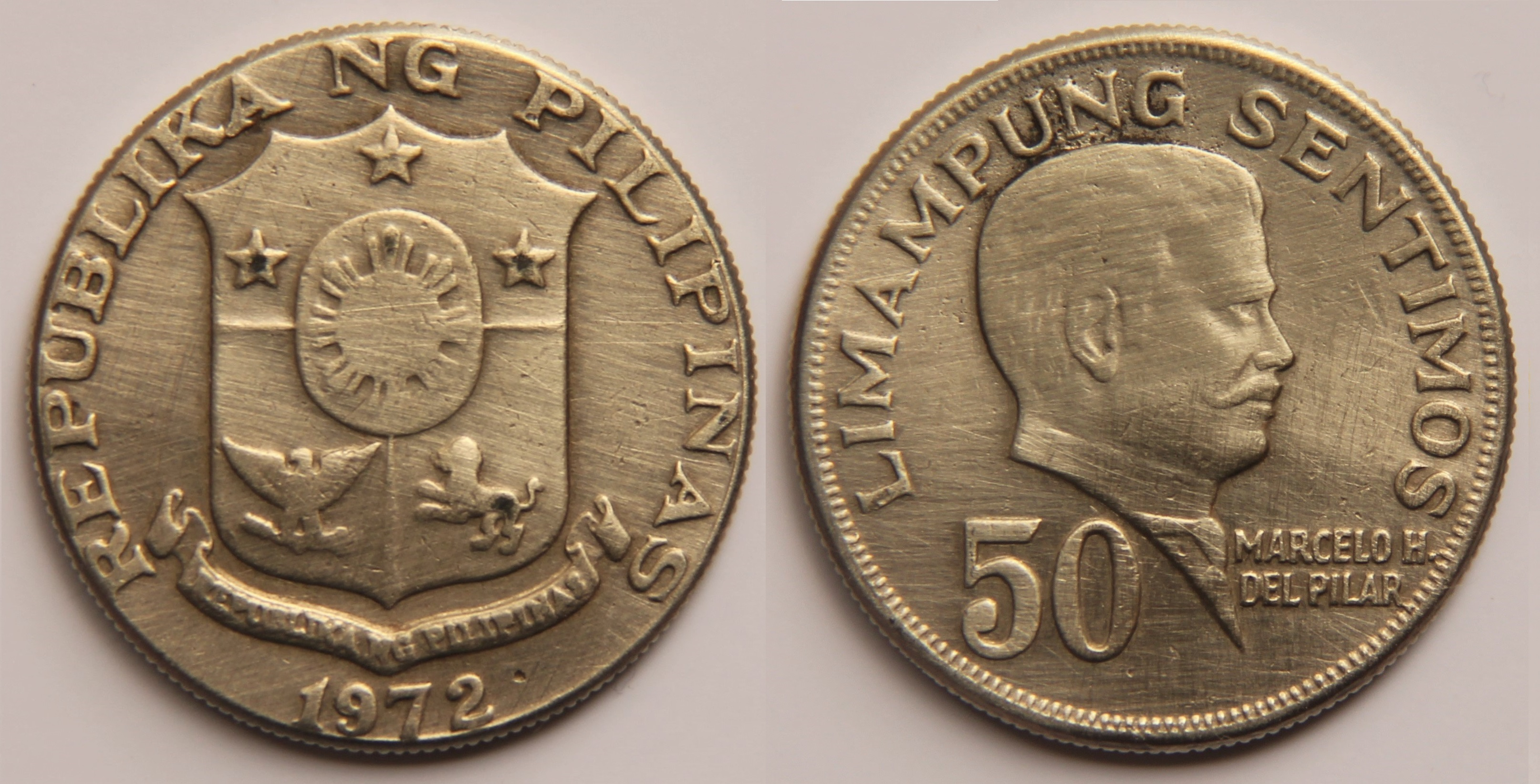 Face value: 50 Sentimos. Country: Philippines. Year of minting: 1972. Metal: Copper-nickel-zinc. Shape: Round. Front (Obverse): Coat of arms of Philippines and year of minting at the bottom. Reverse: Marcelo H. del Pilar in the center and coin facial value written in Filipino. Edge: Reeded.